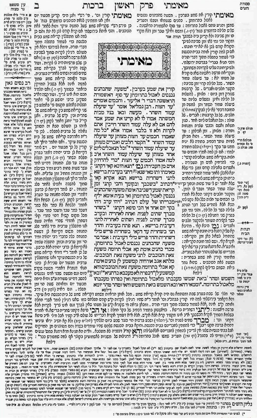 Talmud Bavli, Berochos 2a